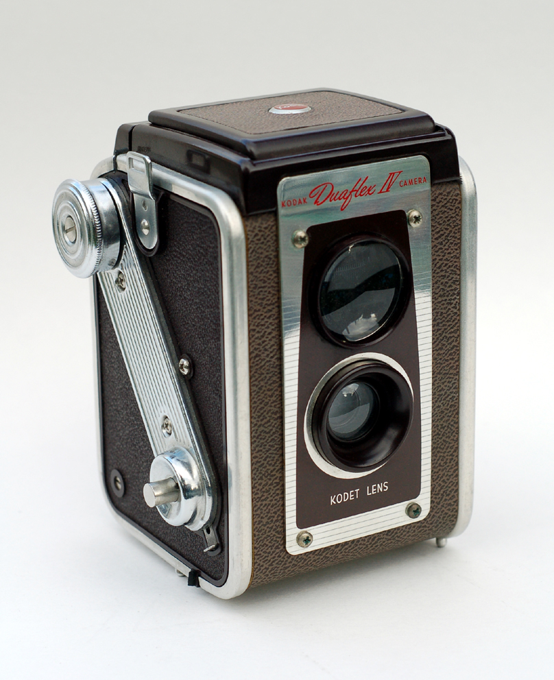 Inexpensive and popular, the Duaflex cameras (models I through IV) were manufactured from 1947-1960. Because of the large viewfinder and because these cameras are so readily available, they have become popular again, for TTV photography.